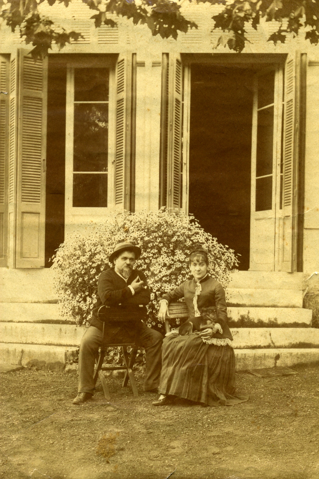 Jean-Vital and Marie in front of their villa in Marseille